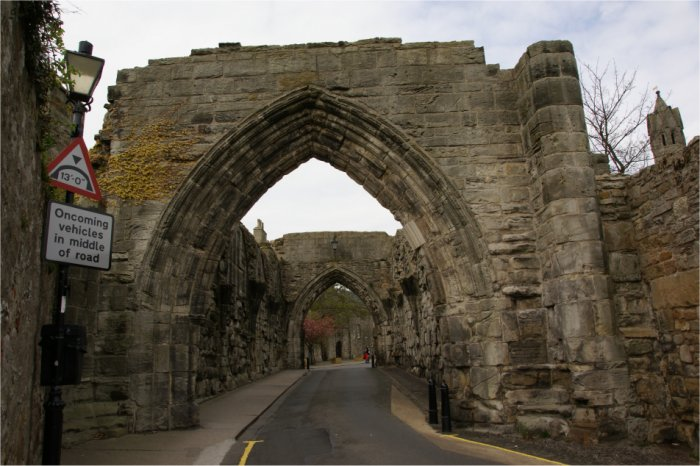 The gate of St Andrews Cathedral, in St Andrews Scotland)